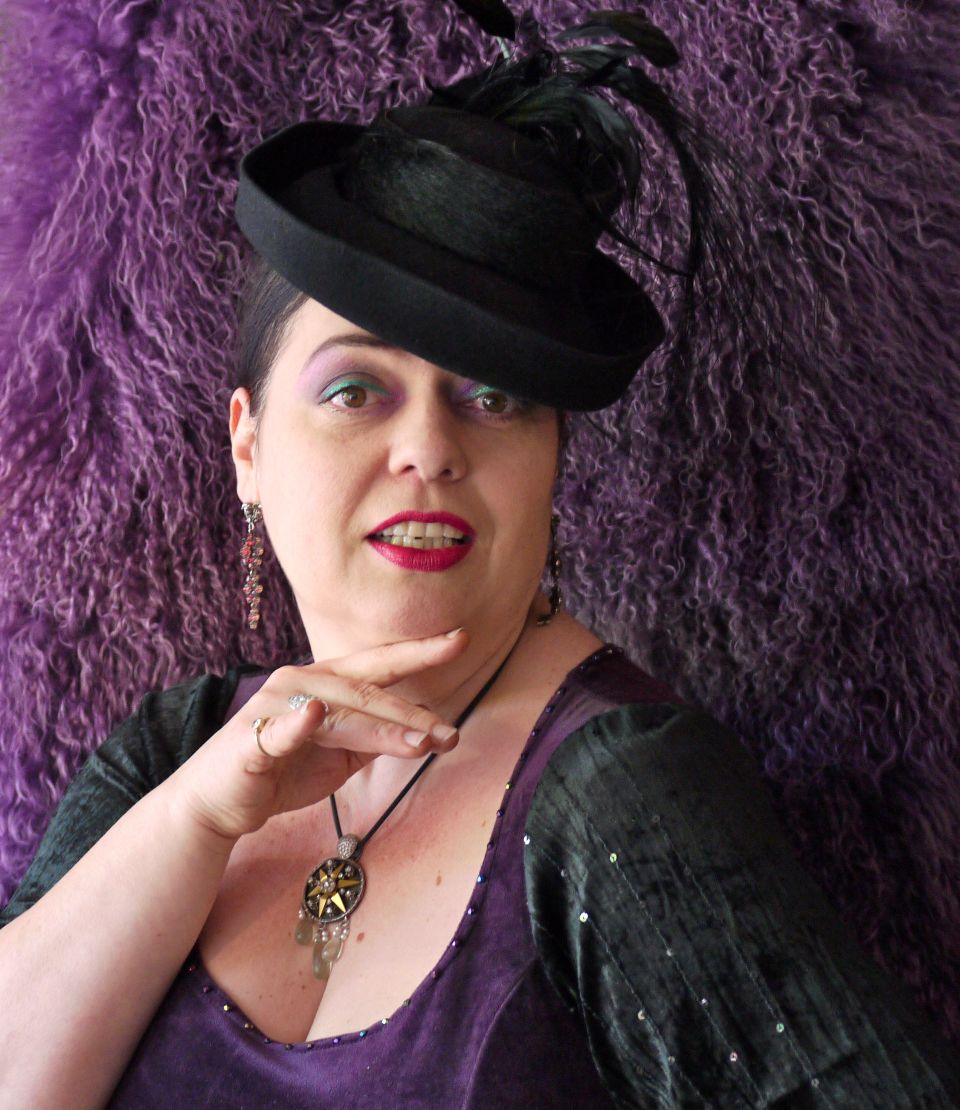 Portrait of Petra Perle, artist